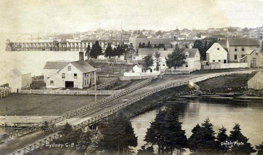 Item is a photograph of Sydney, Nova Scotia, looking north from Tannery Bridge, located at the corner of Esplanade and Kings Road.The coal piers are in the background of the photograph. This area is now part of Wentworth Park, Nova Scotia. b&w ; 12cm x 20cm on sheet 14cm x 22cm Author: Umlah